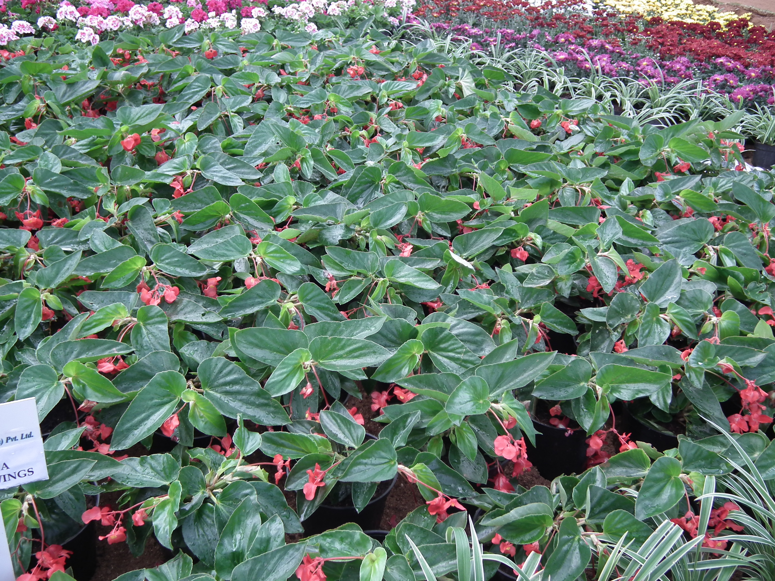 Begonia Dragon wings from Lalbagh flower show